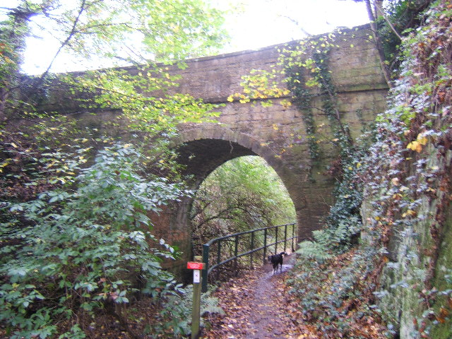 Bridge over the derelict Barnsley canal near Walton. Looking S.